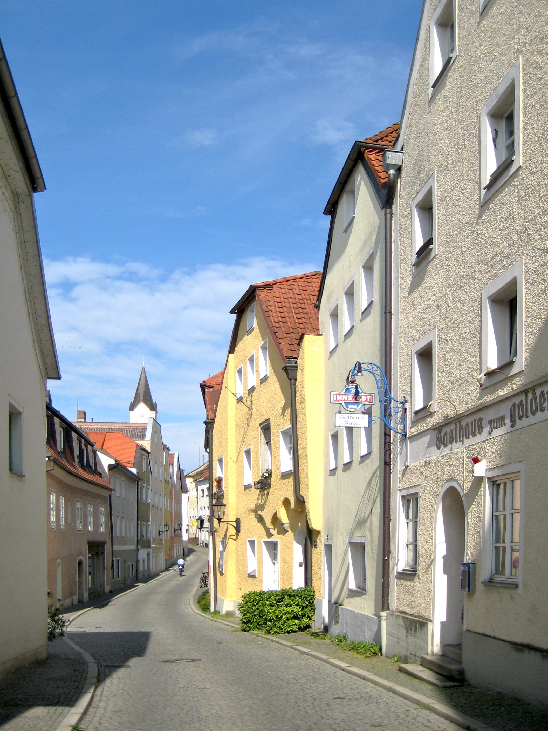 Lederergasse in Passau